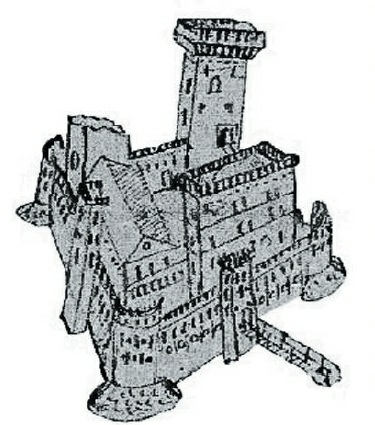 Taken from Archivio Generalizio Agostiniano, Biblioteca Angelica, Rome, Carte Rocca P33